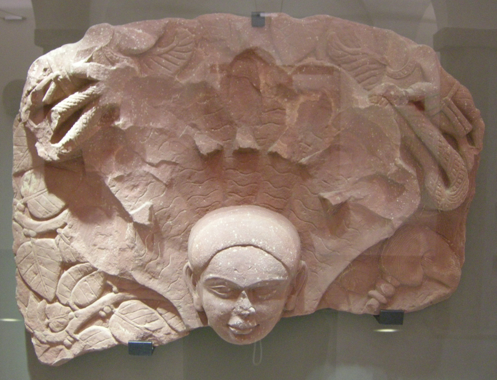 Mathura (Uttar pradesh), tirthankara parshvanatha, 2nd Century CE